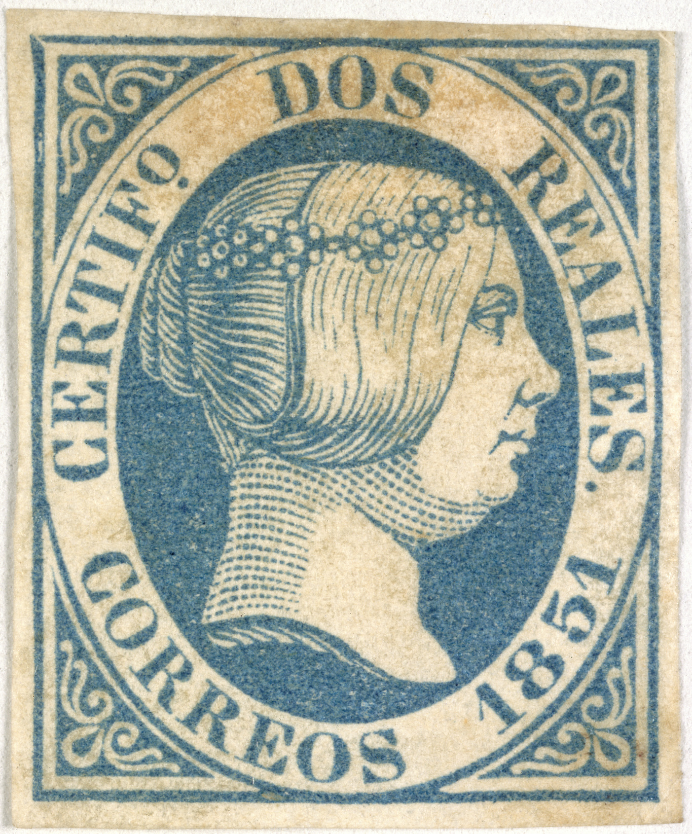 Queen Isabella II Spain: 1851 2 reales blue error of colour (instead of red), used, one of three known. The Tapling Collection.